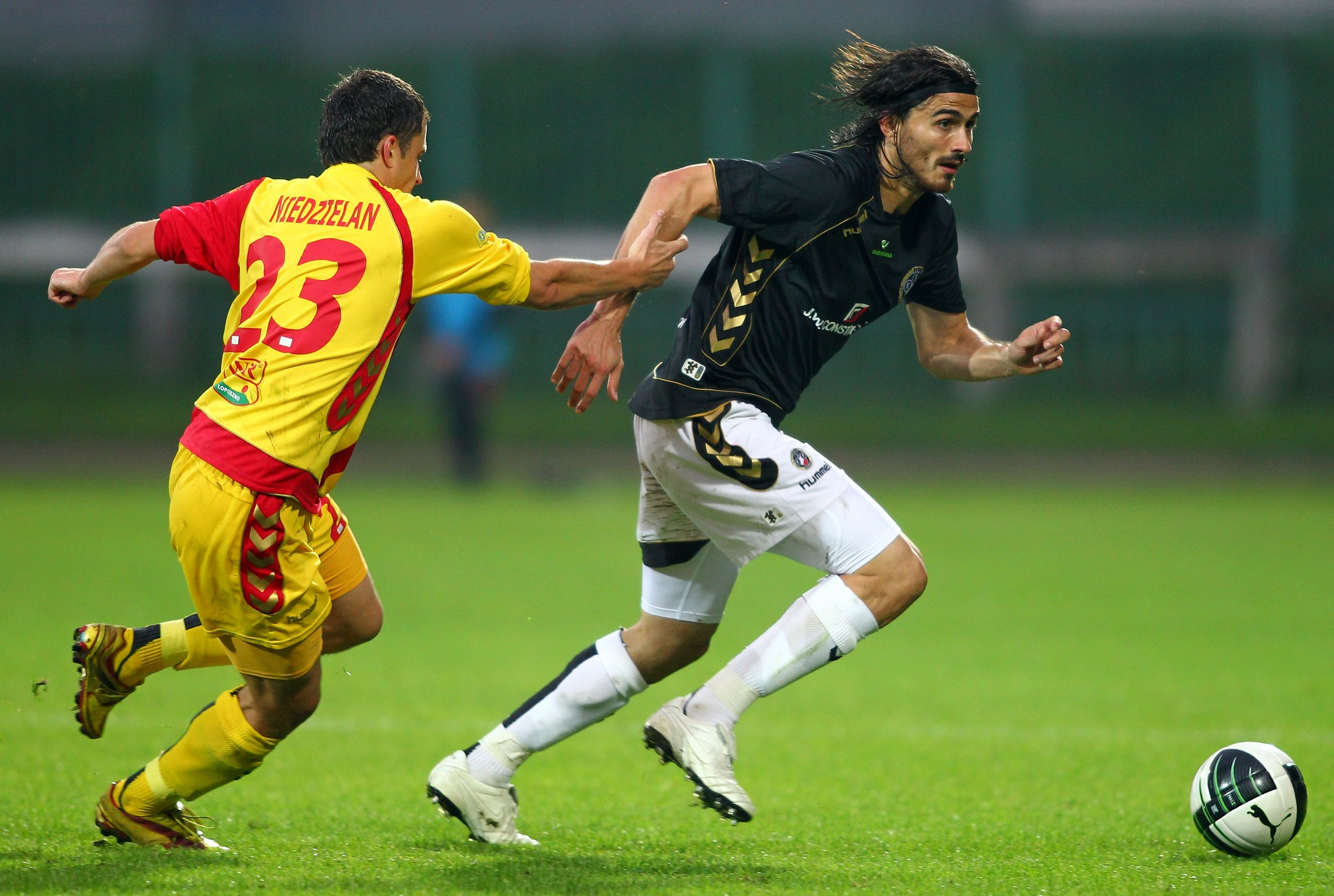 Andrzej Niedzielan (left) of Korona Kielce tries to get hold of Bruno Coutinho (right) of Polonia Warszawa during an Ekstraklasa match